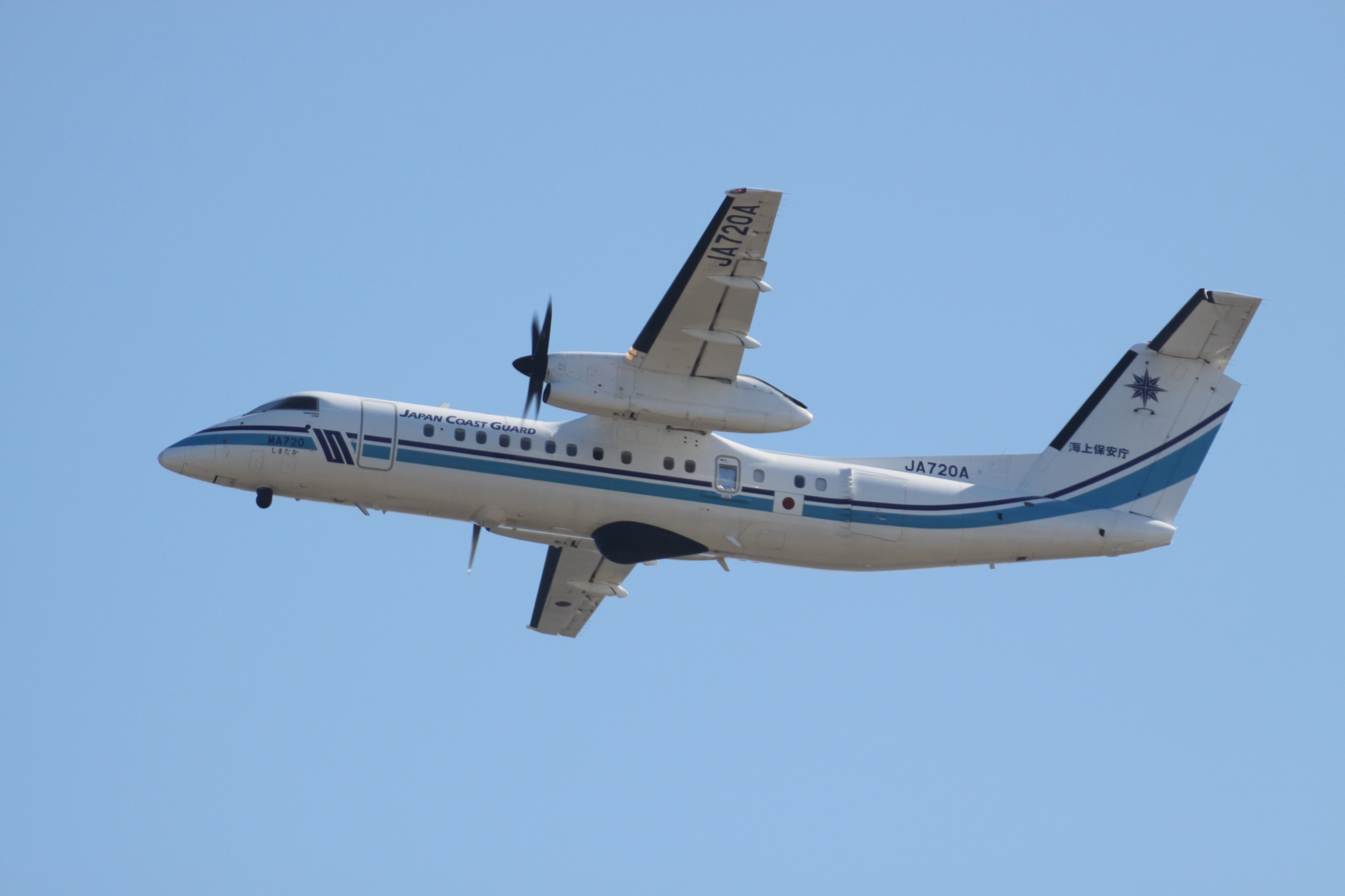 At Osaka Kansai International